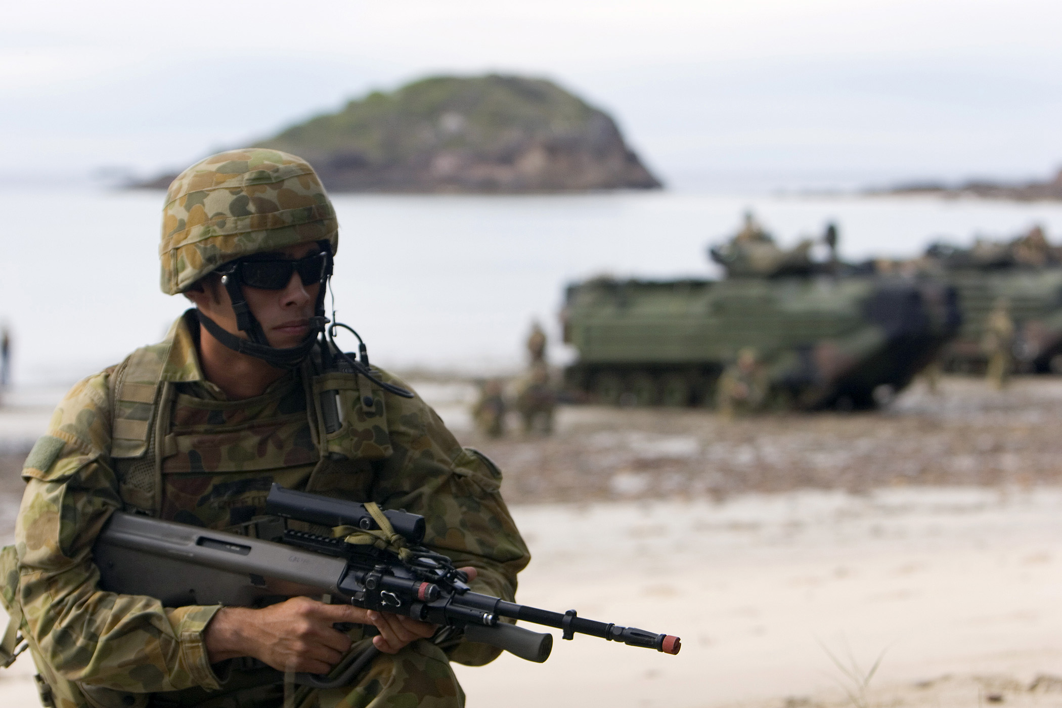 SHOALWATER BAY TRAINING AREA, QUEENSLAND, Australia – Australian Army Pvt. Tim Griffiths, a rifleman with 2nd Battalion, Royal Australian Regiment, provides security for the Amphibian Assault Vehicles of the 3rd Marine Expeditionary Brigade's 31st Marine Expeditionary Unit, at Fresh Water Bay here, June 18, during an amphibious assault rehearsal in support of Talisman Saber 2007. Talisman Saber is conducted to train Australian and U.S. joint task force and operations staff in crisis action planning for execution of contingency operations. The exercise also supports increased interoperability, flexibility and readiness in winning the Global War on Terror.